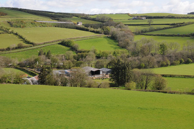 Farm and farmland in Cwmwysg, near to Llywel, Powys, Wales viewed from the road to the south.